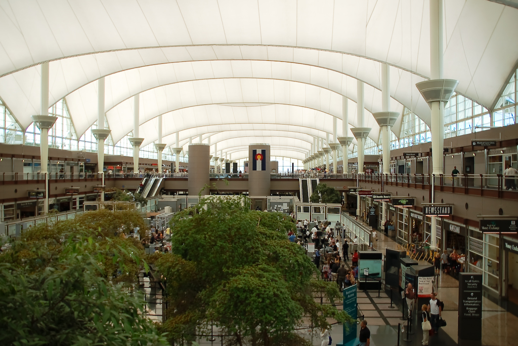 Overview of Jeppesen terminal at Denver airport